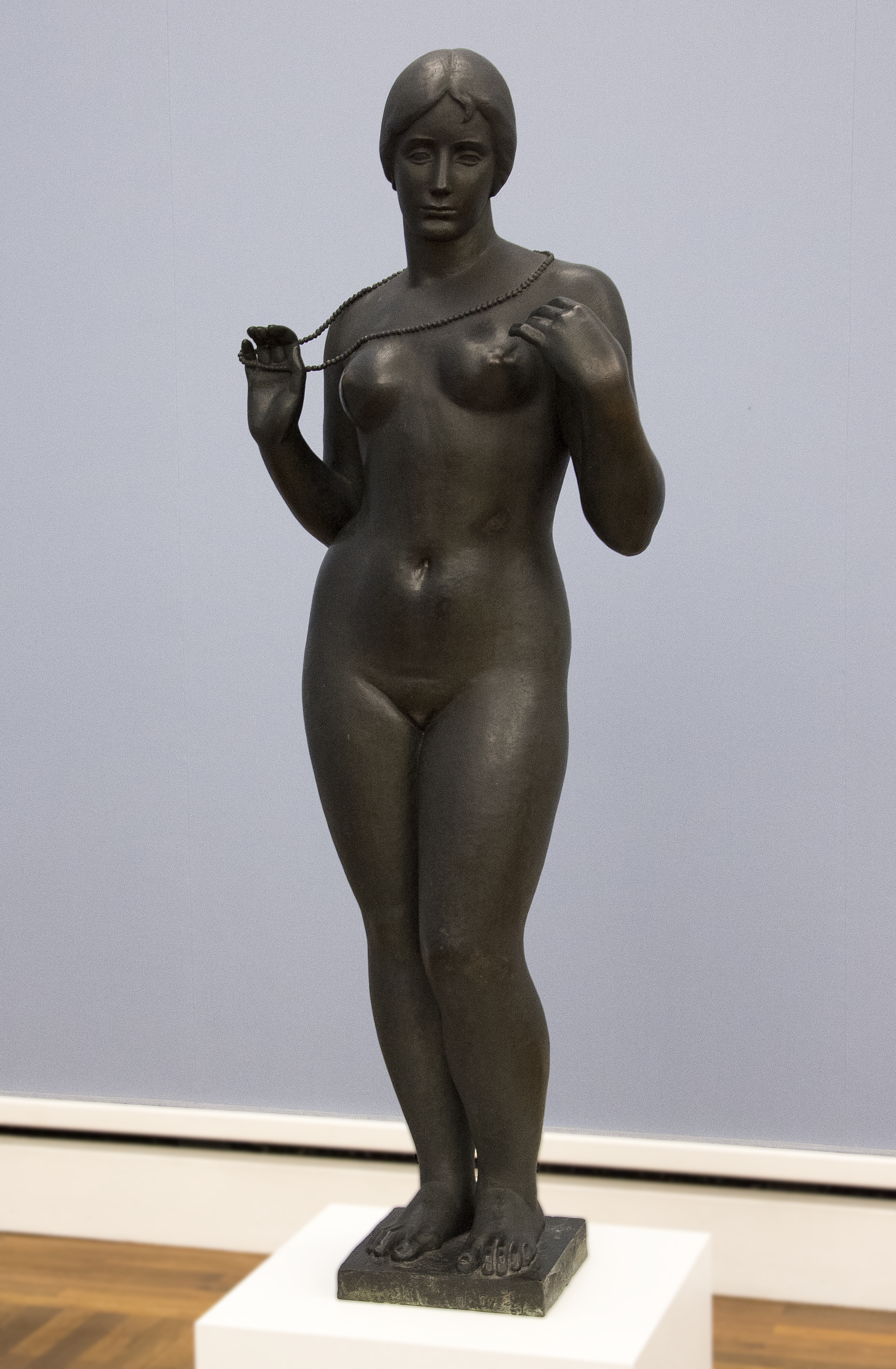 Aristide Maillol (1861-1944) Venus with neckless - Neue Pinakothek